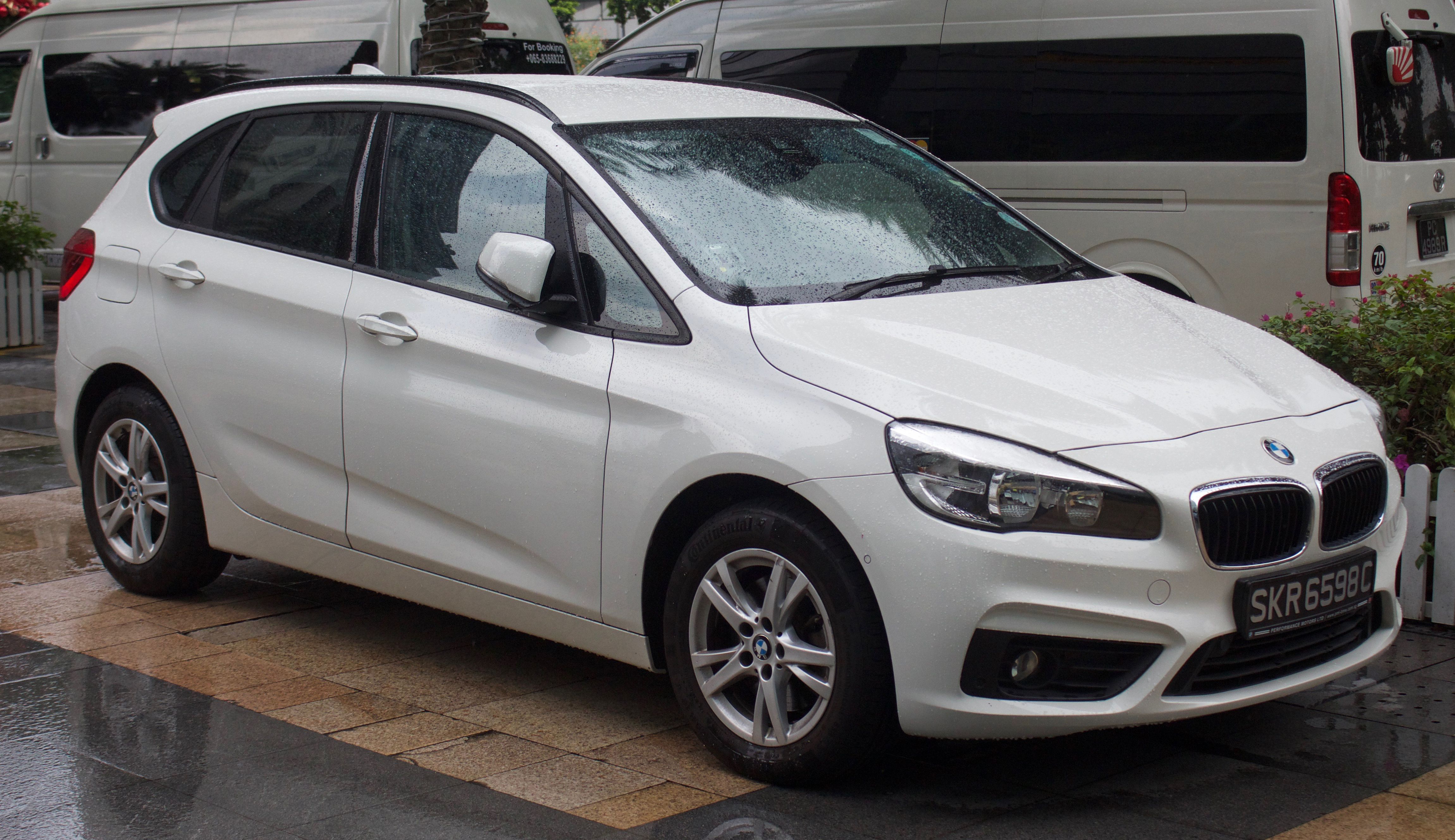 2016 BMW 218i (F45) Active Tourer hatchback. Photographed at the The Fullerton Hotel Singapore in Singapore.